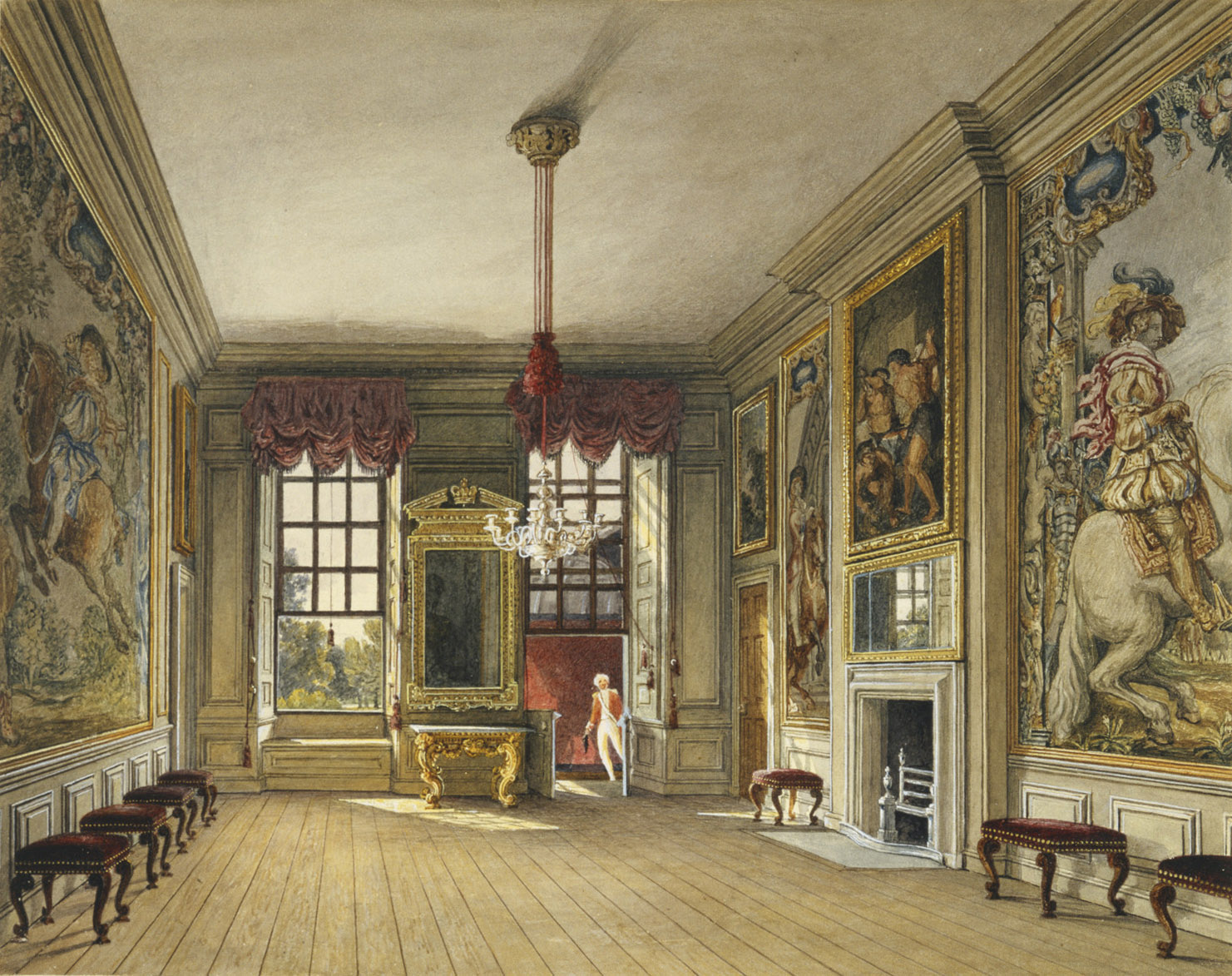 A view of the Queen's Levee Room at St James's Palace. The aquatint engraving of this picture was published as plate 72 of W.H. Pyne (1819) The History of the Royal Residences